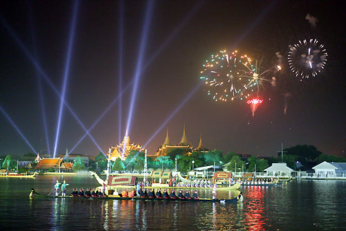 BANGKOK. Light and music aquatic show.